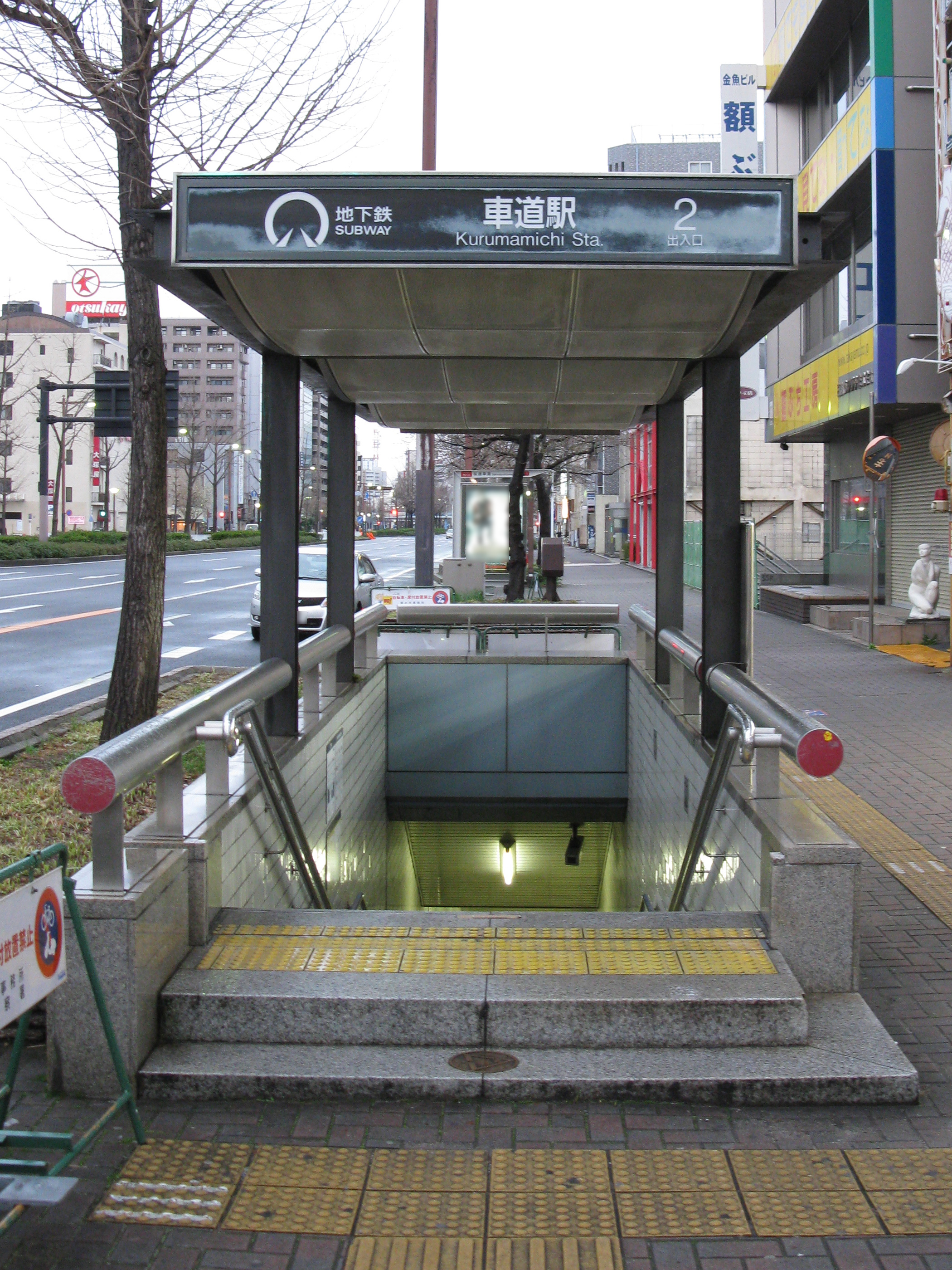 Kurumamichi Station no.2 entrance (Nagoya Municipal Subway Sakura-dōri Line)